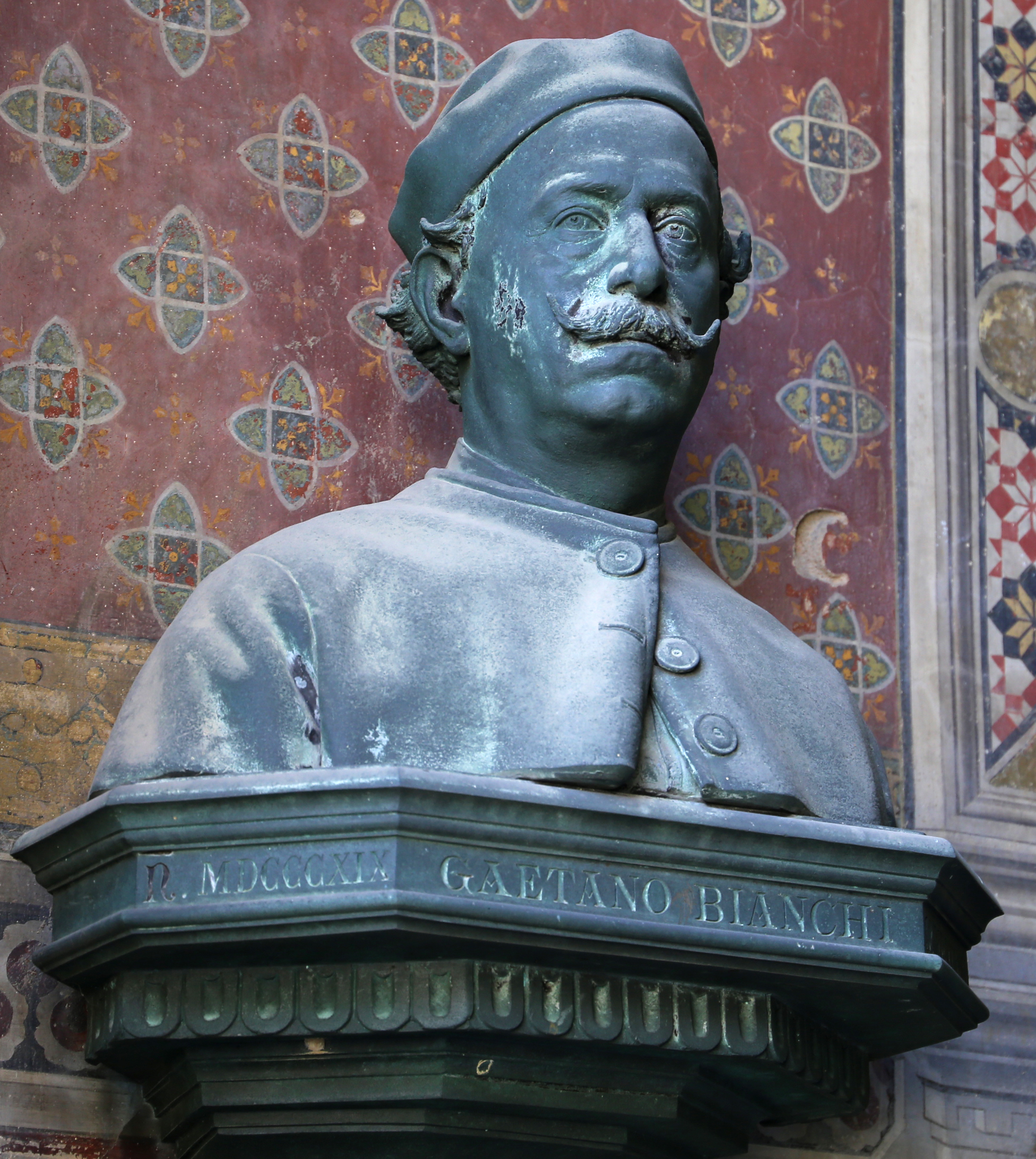 Cimitero della Misericordia (Florence)